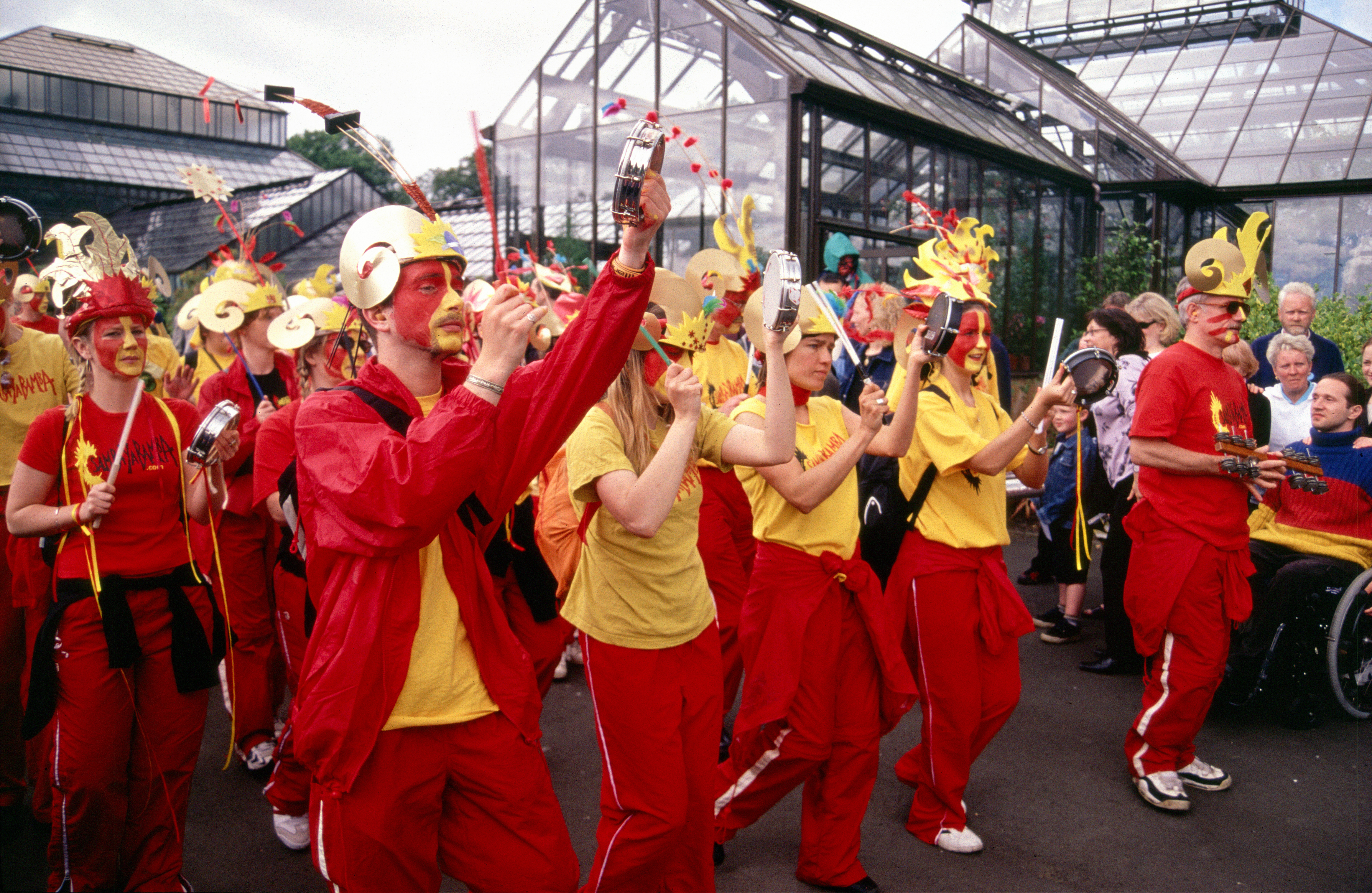 Procession of Glasgow's West End Festival in mid-2002 as seen in the Botanical Gardens (just off Byres Road).